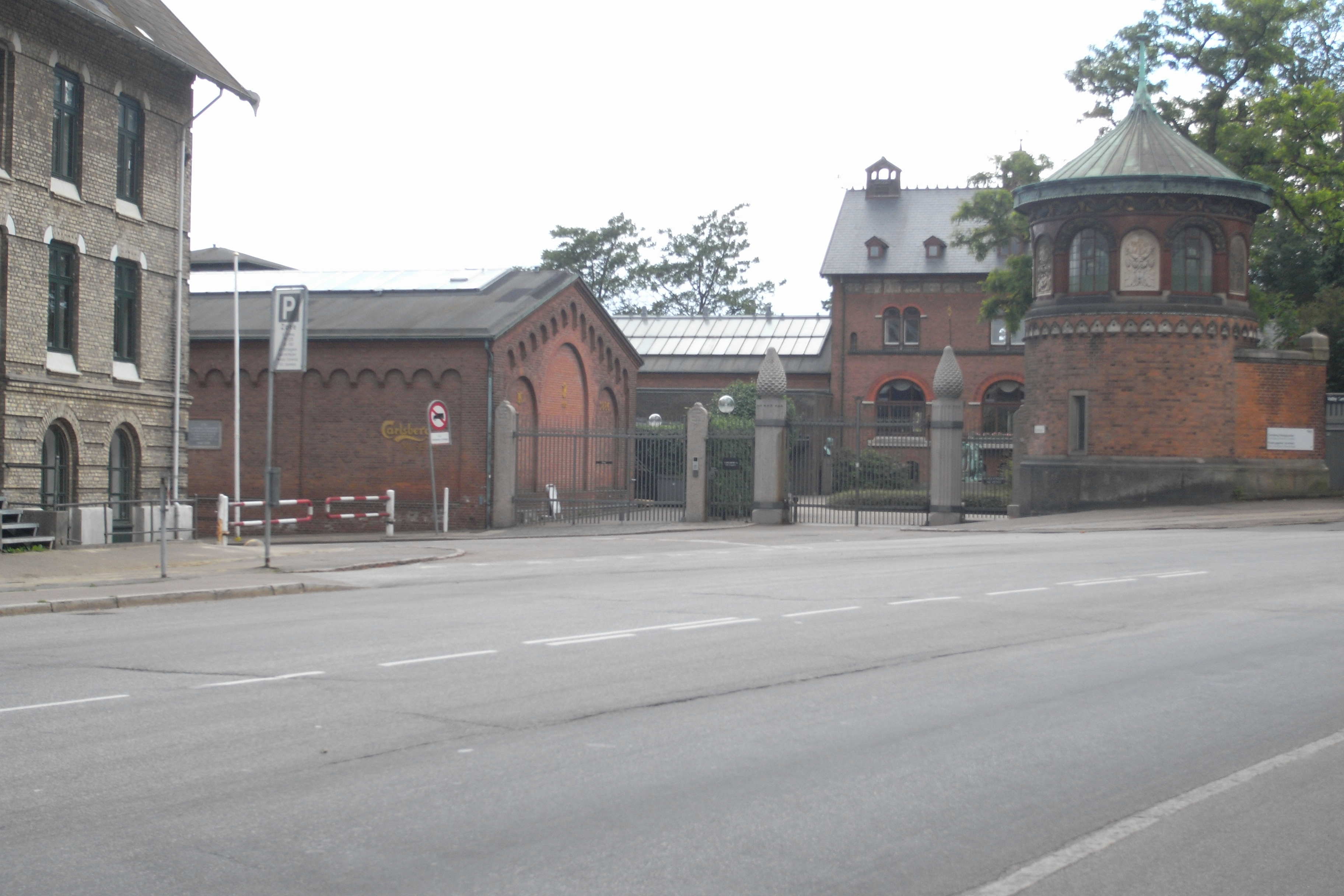 The entrance to the Carl Jacobsen House with Carlsberg Museum to the left and the round guardhouse to the right in Copenhagen, Denmark